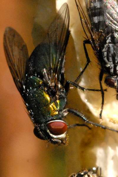 Lucilia bufonivora from Commanster, Belgian High Ardennes .